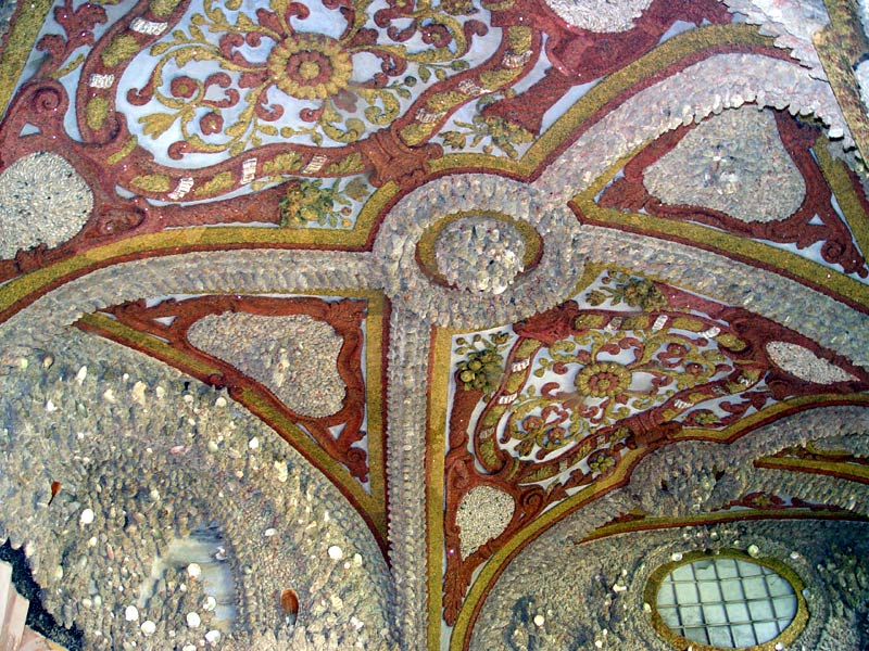 The fine work in the restored beach house of Castle Salaberg